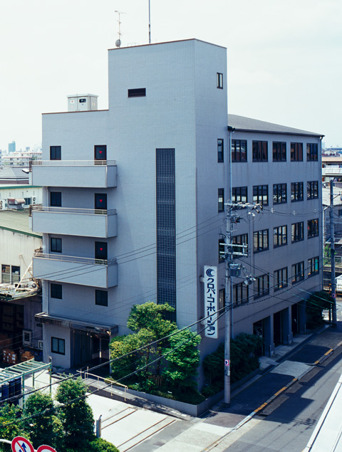 clovercorporation